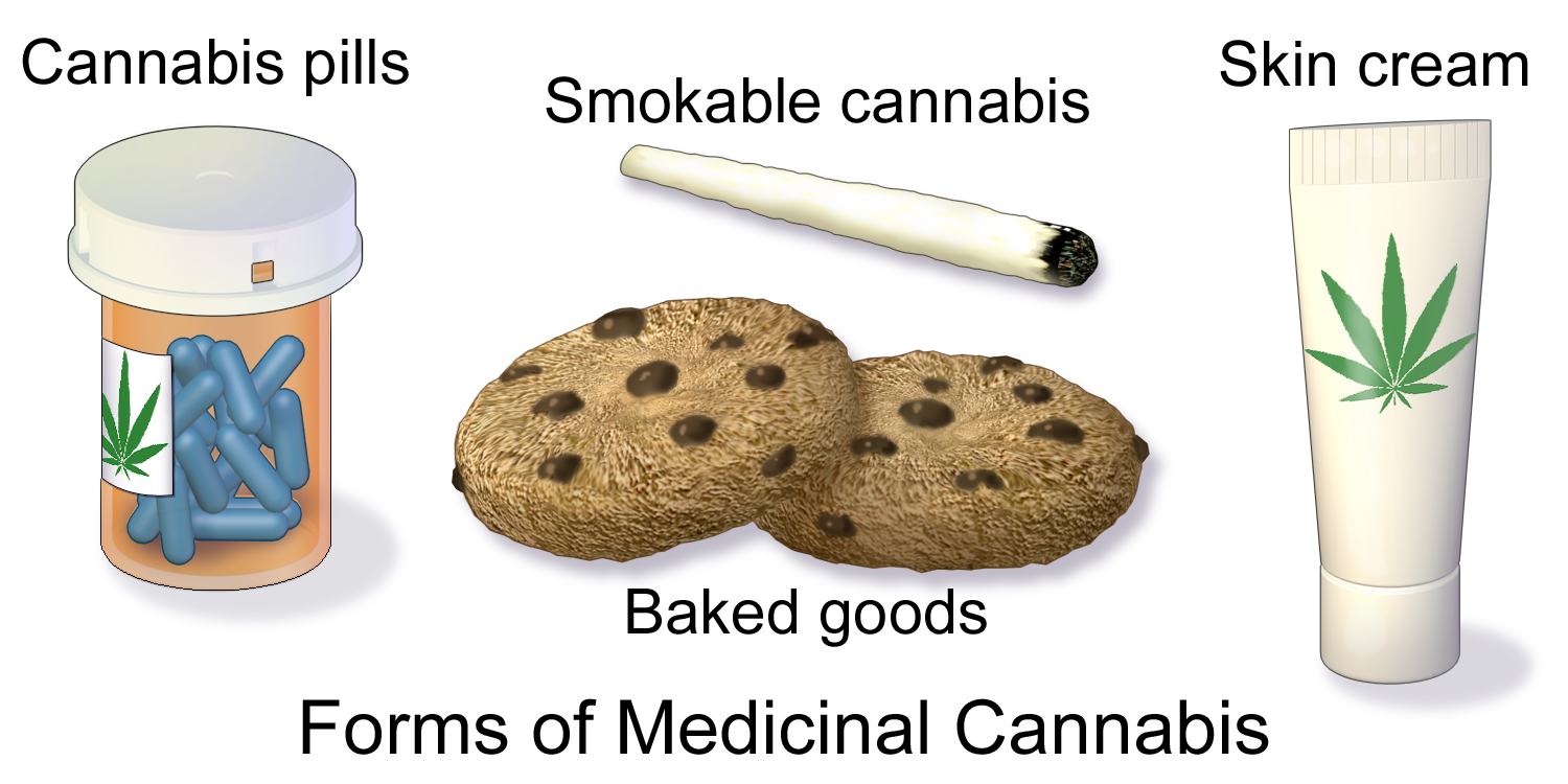 Forms of Medicinal Cannabis. This image was donated by Blausen Medical. Please visit our website to see more medical illustrations and animations.